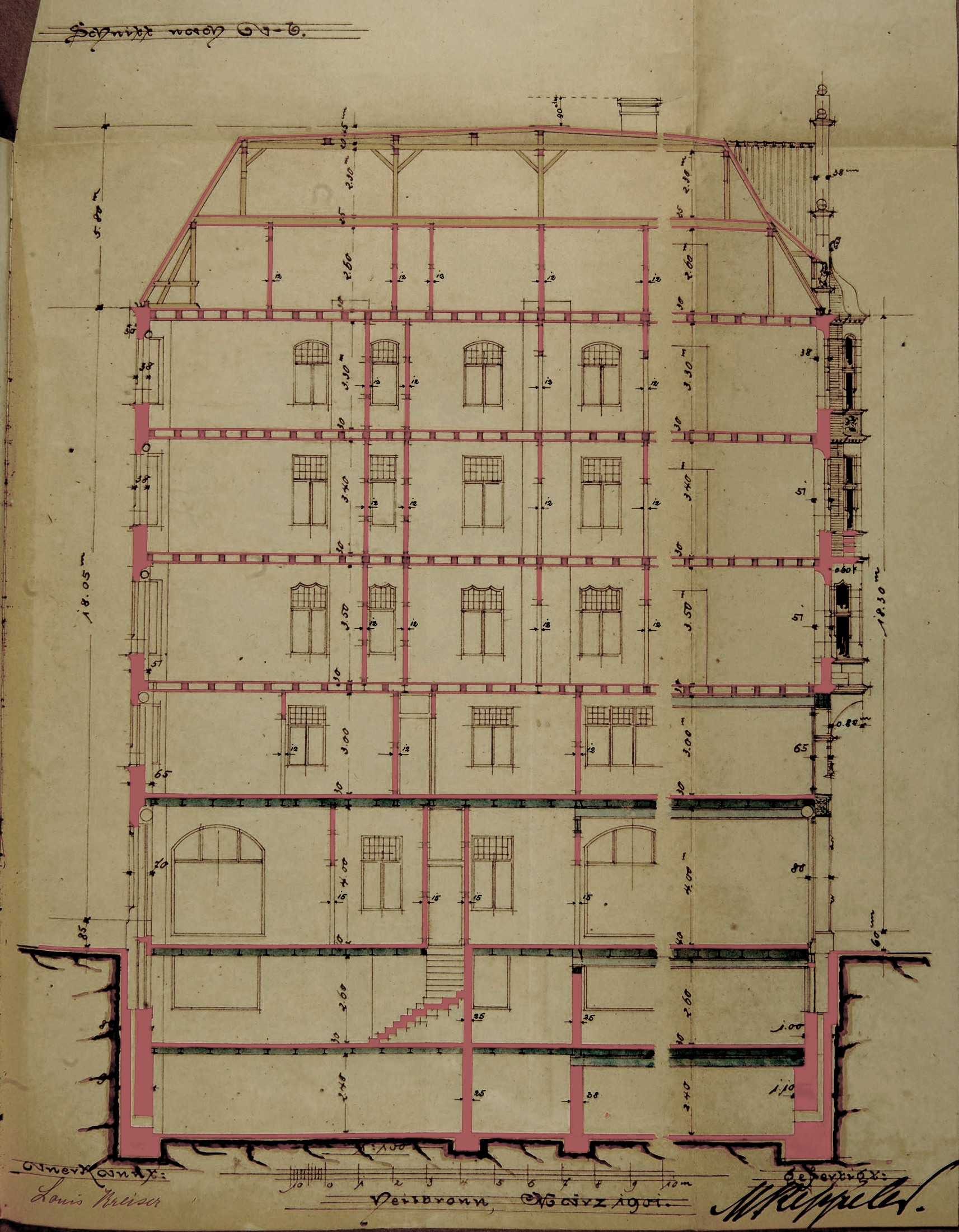 File:Haus Kaiserstraße 31 - Bauherr Louis Kreiser - Architekt M. Keppeler - Verkauf 1914 an Heinrich Grünwald - Café von Konrad Morlock (Heilbronn)_Querschnitt.jpg